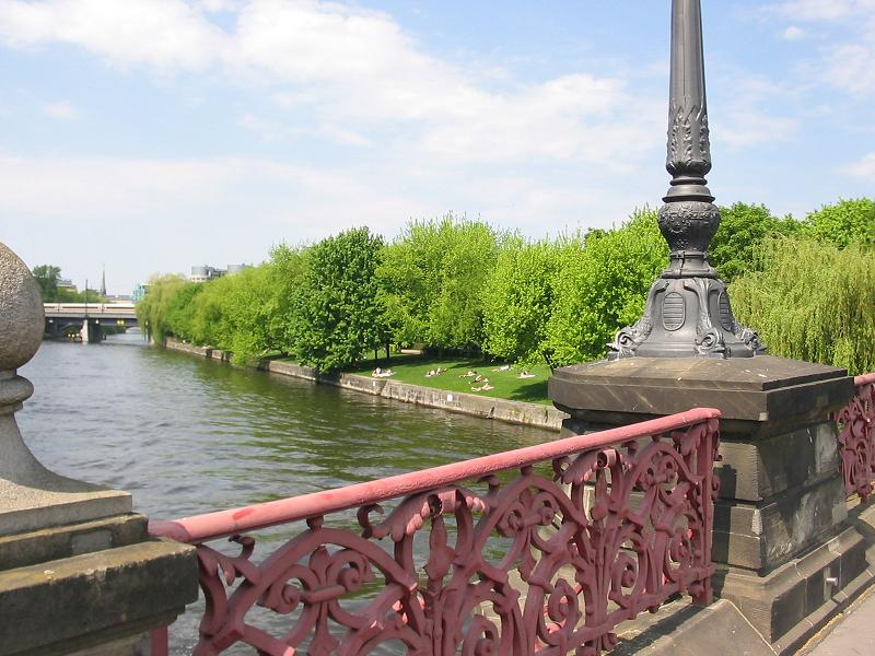 The „Bundespräsidentendreieck“ (in short: Präsidentendreieck) is a parc at river Spree in Berlin-Mitte, opened in 2001. View from the Lutherbrücke (bridge).